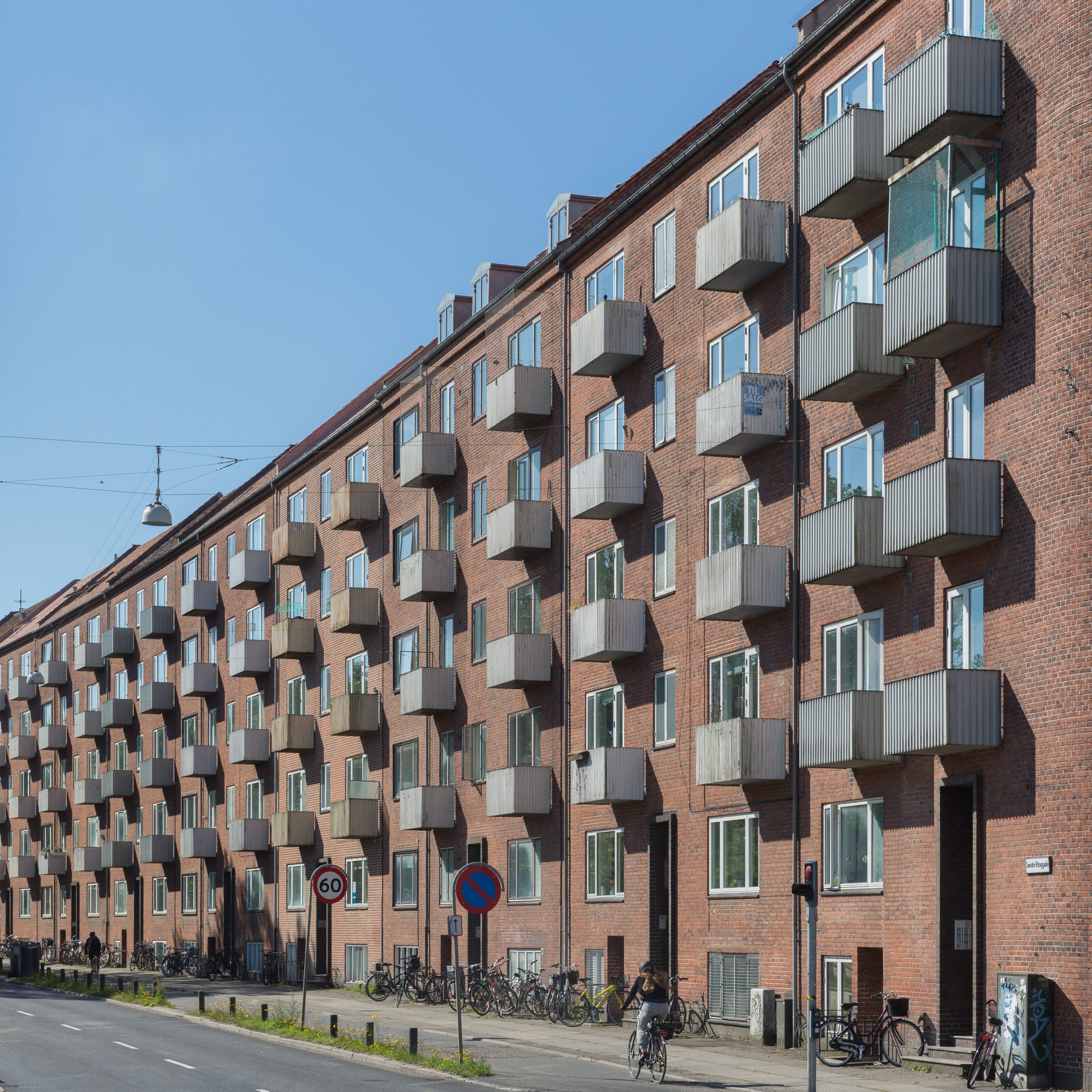 Balconies on Søndre Ringgade, Aarhus, Denmark